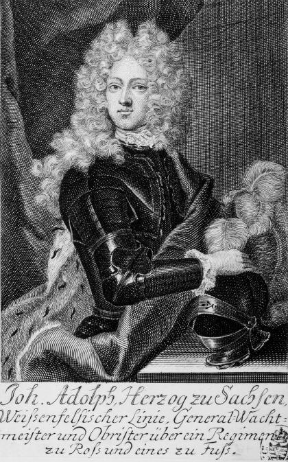 Johann Adolf II, Duke of Saxe-Weissenfels (1685-1746)